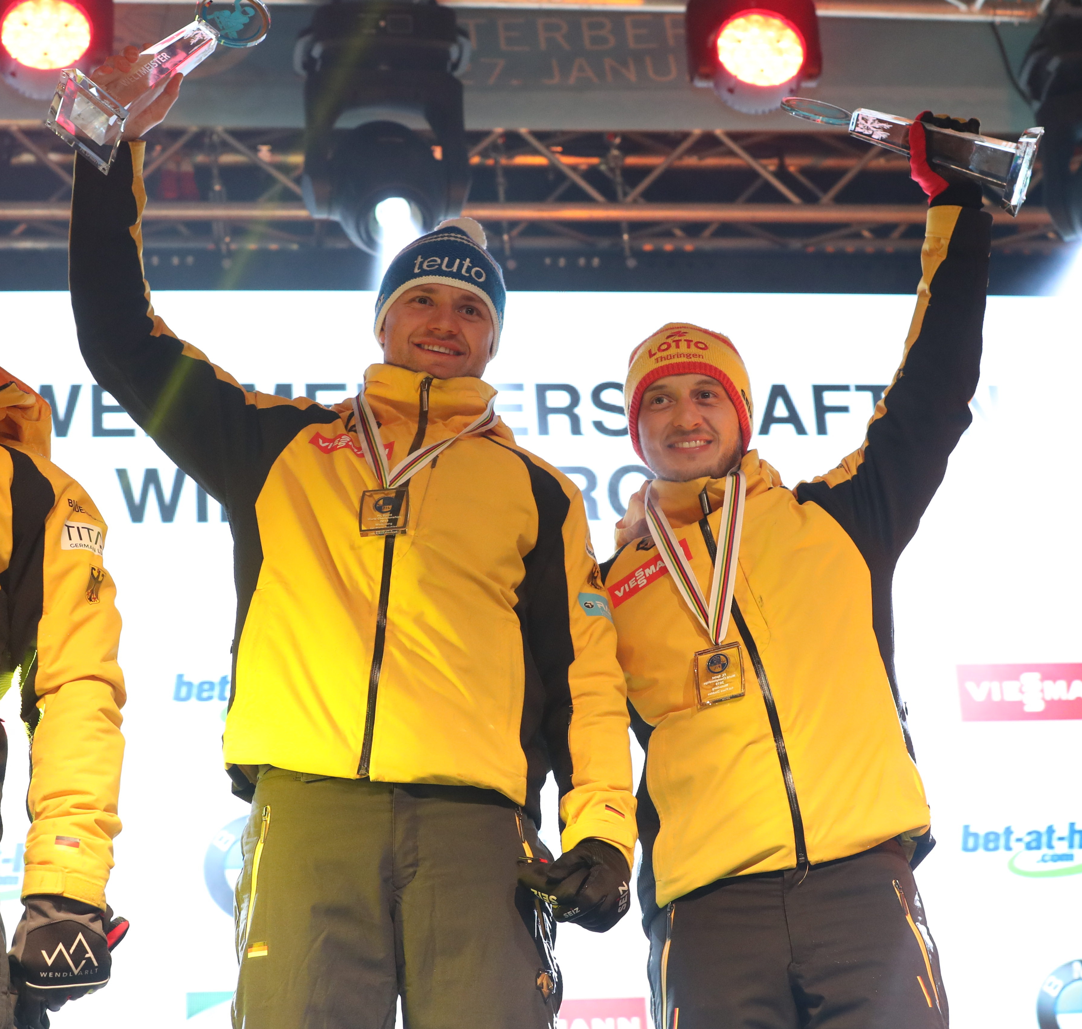 Sprint World Championships Victory Ceremonies (Friday) at the FIL World Luge Championships 2019 in Winterberg